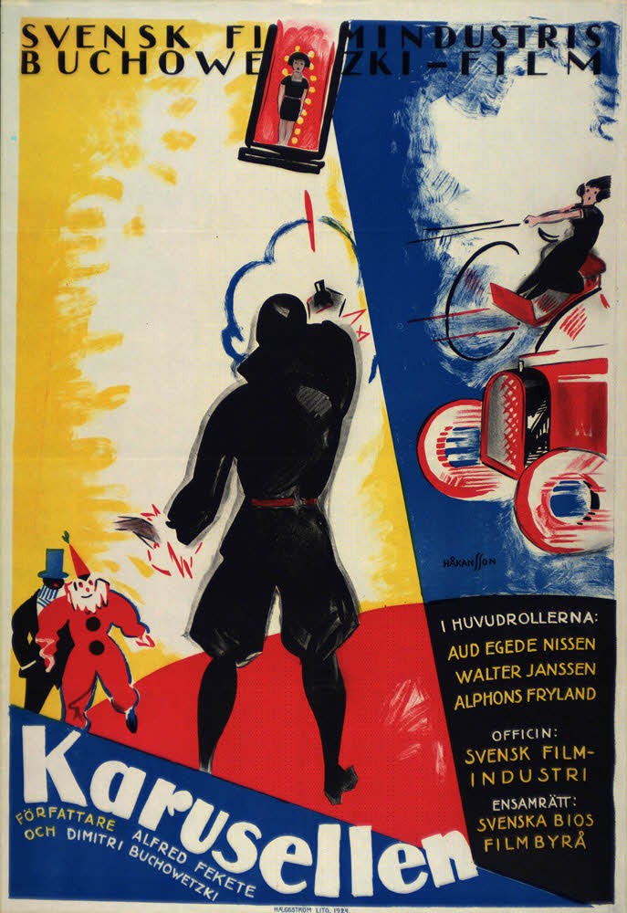 Original poster for the 1923 Swedish movie Karusellen by unknonwn artist.